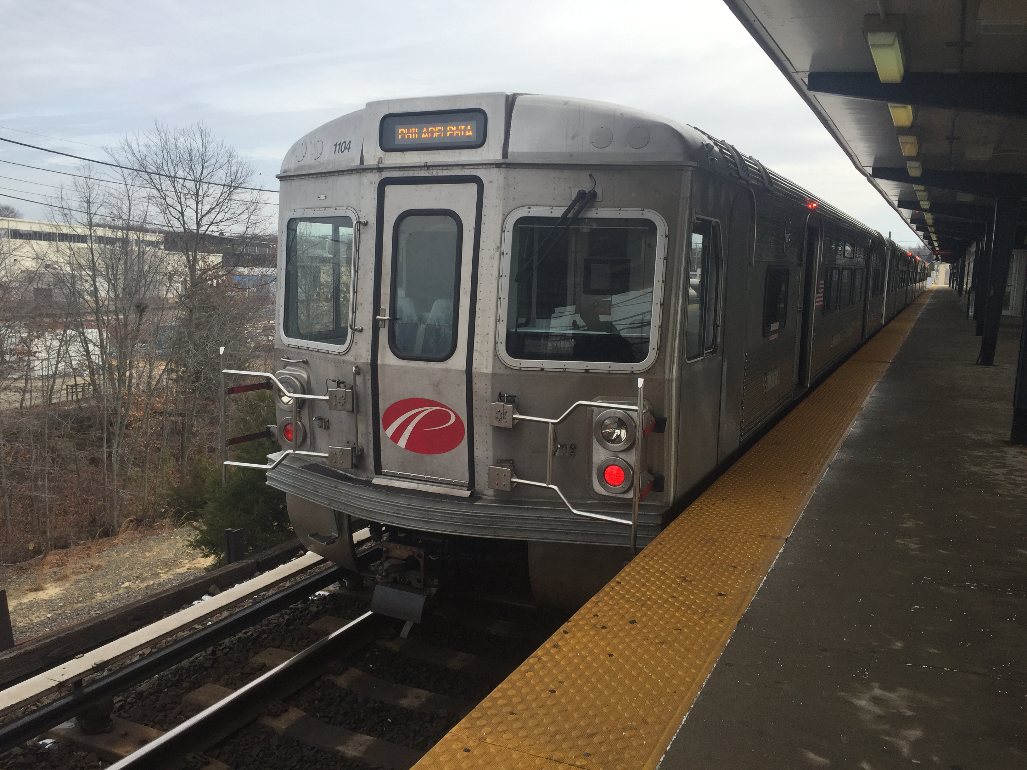 An Alstom-rebuilt PATCO car waiting to depart Lindenwold Station